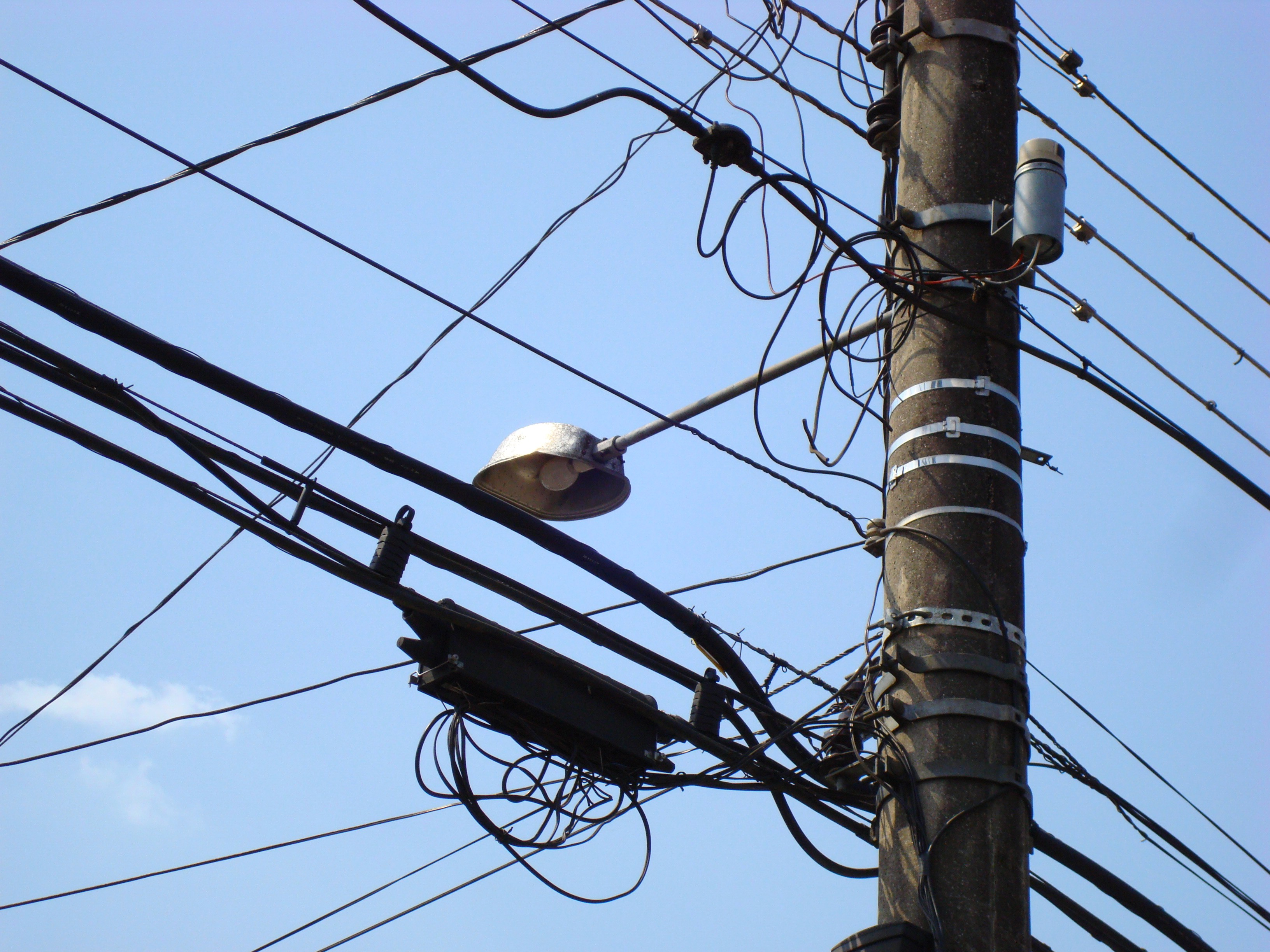 Detailed image of an utility pole. Curitiba, Brazil.